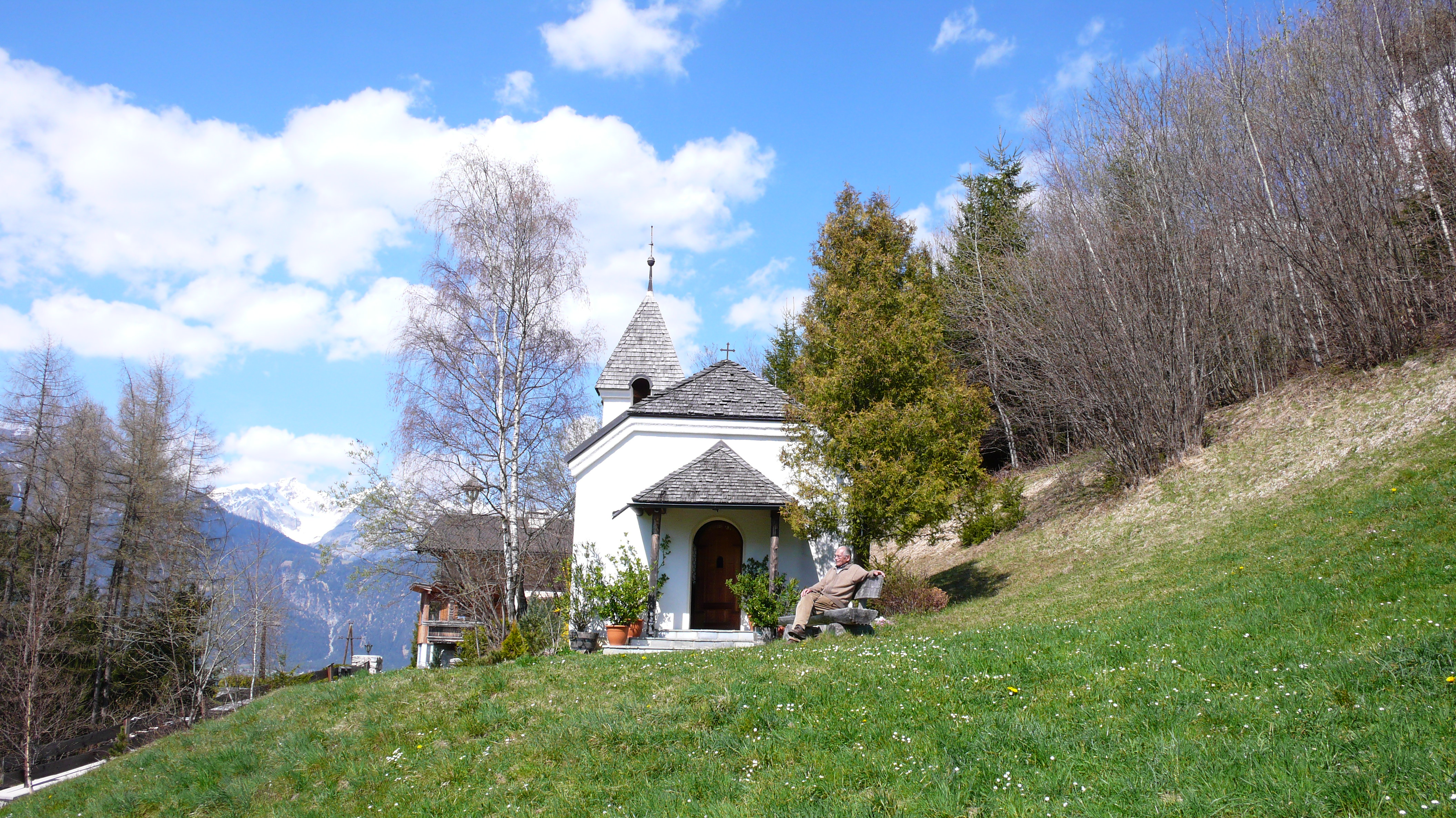 Schmiederer Kapelle Wattenberg Tirol This media shows the remarkable cultural object in the Austrian state of Tyrol listed by the Tyrolean Art Cadastre with the ID 59148. (on tirisMaps, on tirisdienste.at, pdf, more images on Commons)